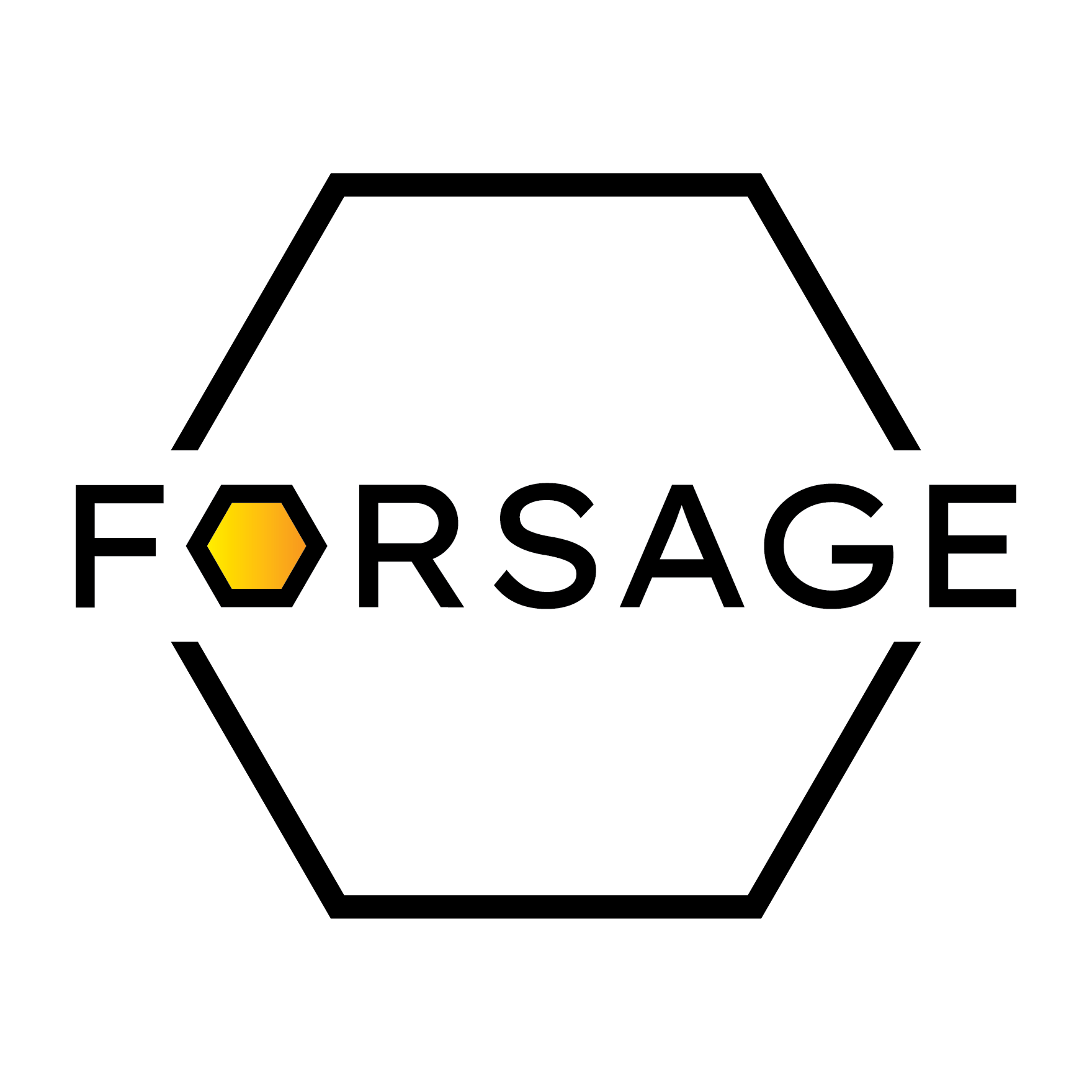 Logo startupu Forsage